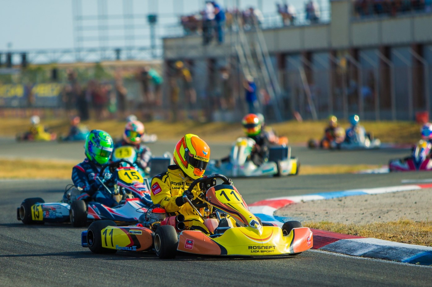 Panfilov, Kosarev, Karting, KZ2, Yevpatoria, 2019